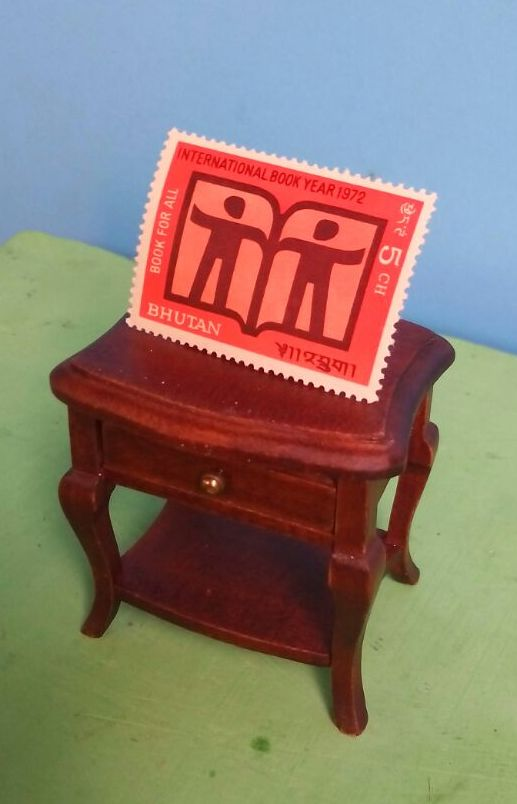 International Book Year 1972, Bhutan stamp.